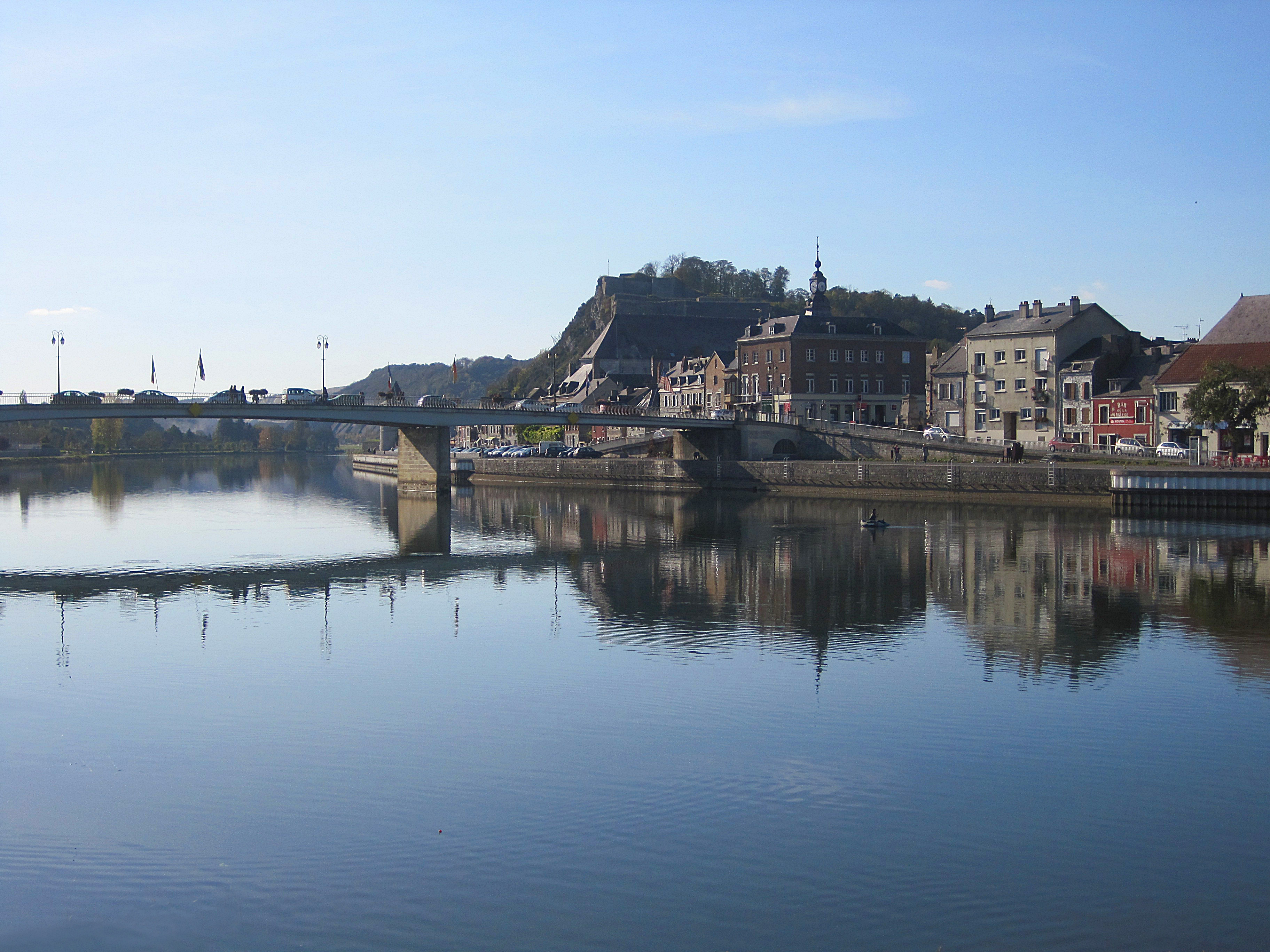 The Meuse, the American Bridge, the Quai des Remparts, the Saint-Hilaire quarter and the Fort Charlemont in Givet (Ardennes department, France) Walon: Li Moûse, li pont Amèrikin, li kê dès rampârts, li kârtier Sint-Ilaîre èt l'fôrt Chârlèmont a Djivet (Dèpartèmint dès Ârdènes, France)